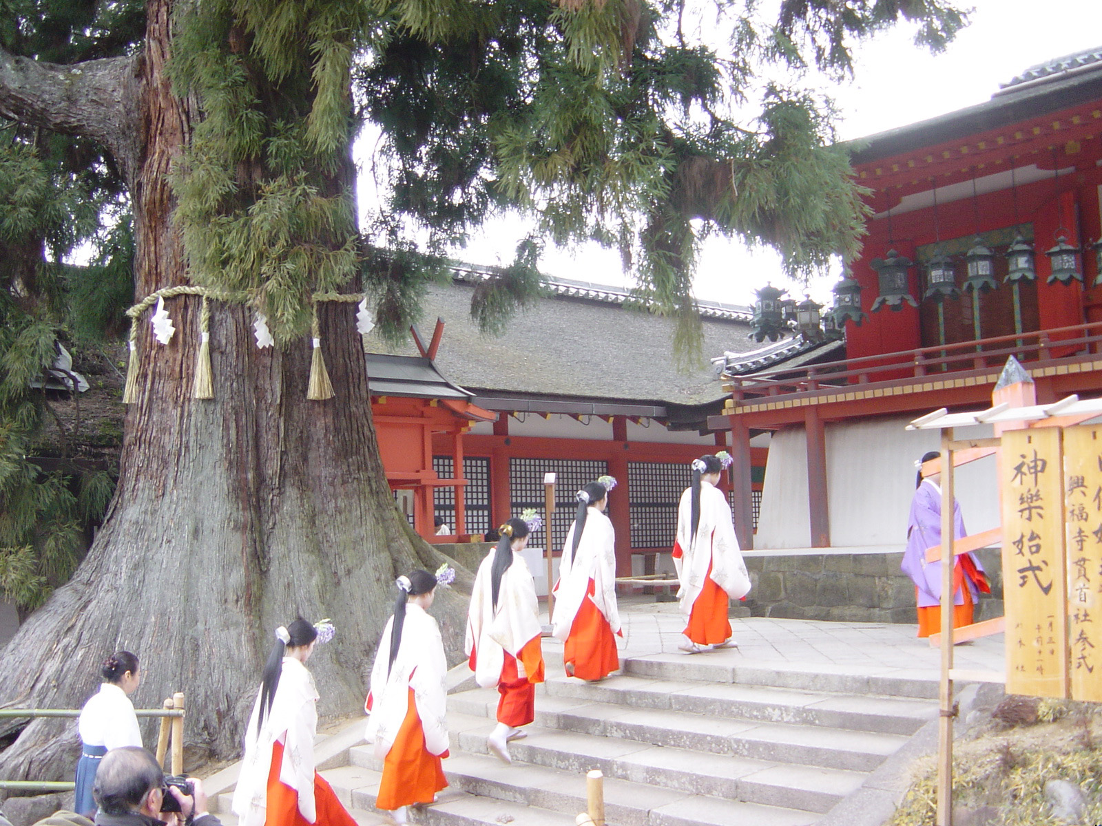 Shinto Dance in Kasuga Shrine